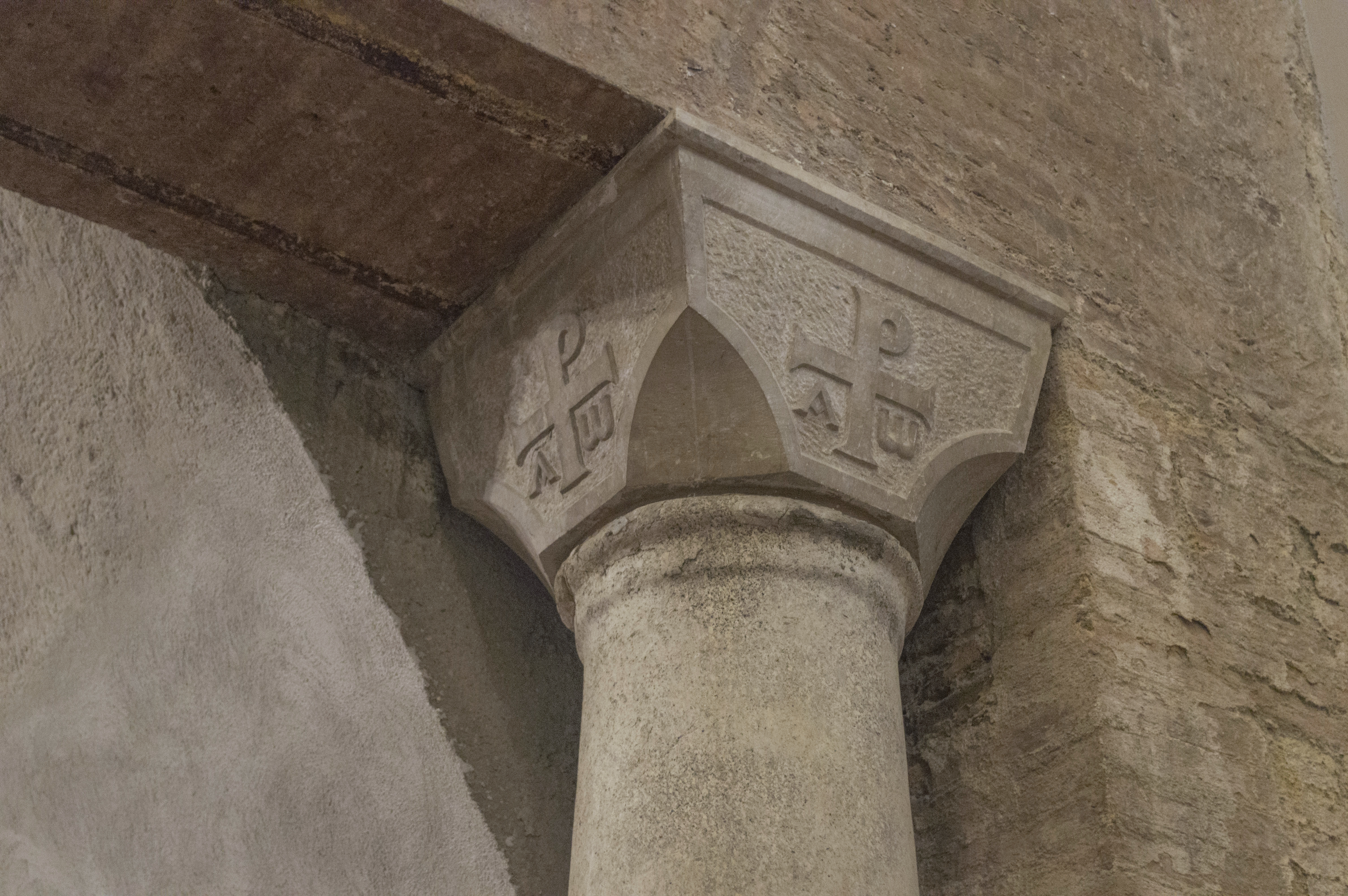 Battistero di San Giovanni in Fonte, Naples - column capital